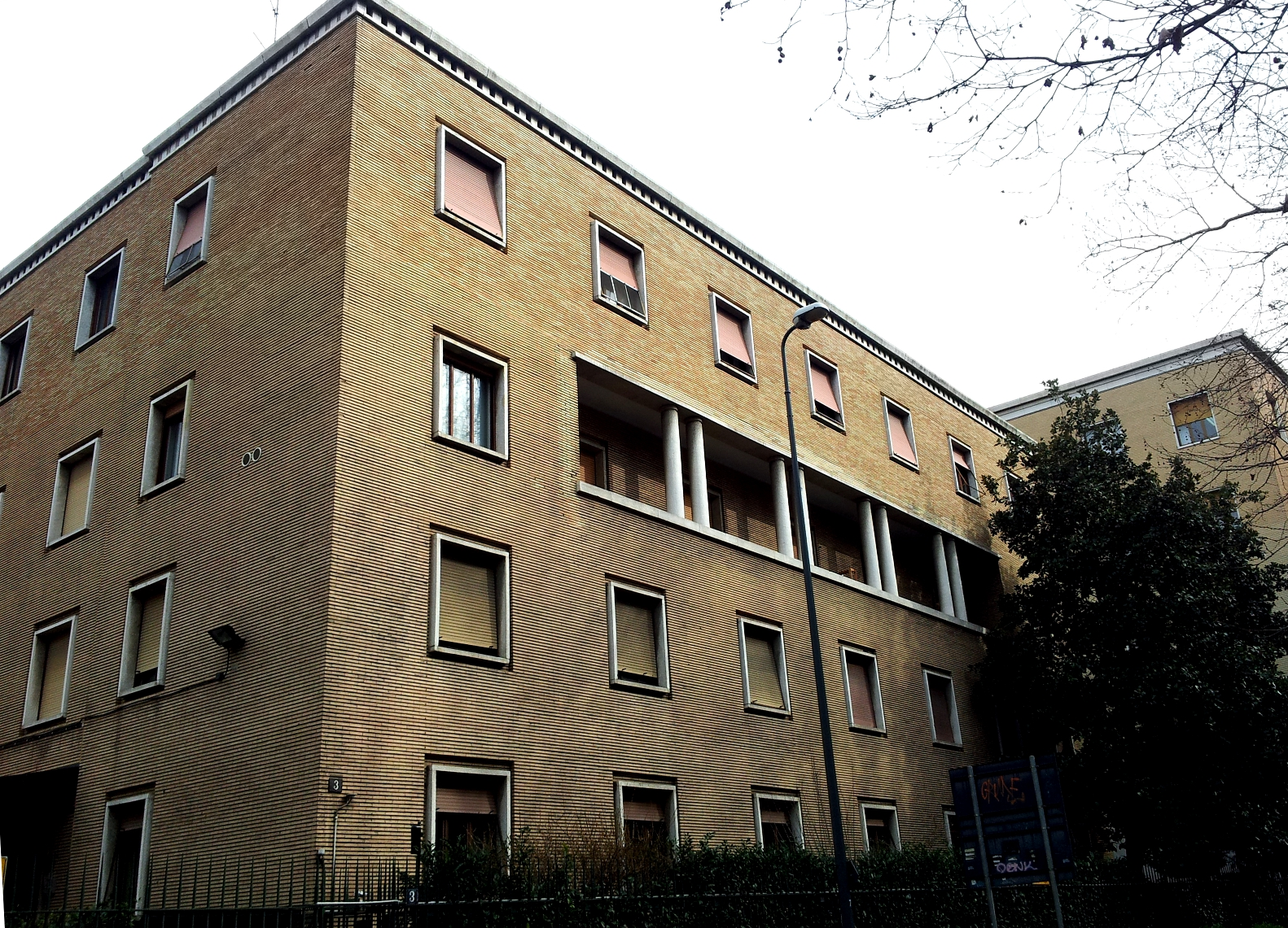 Officers' building, Headquarters of the 1st Regional Command of the Italian Air Force in Milan, Italy.